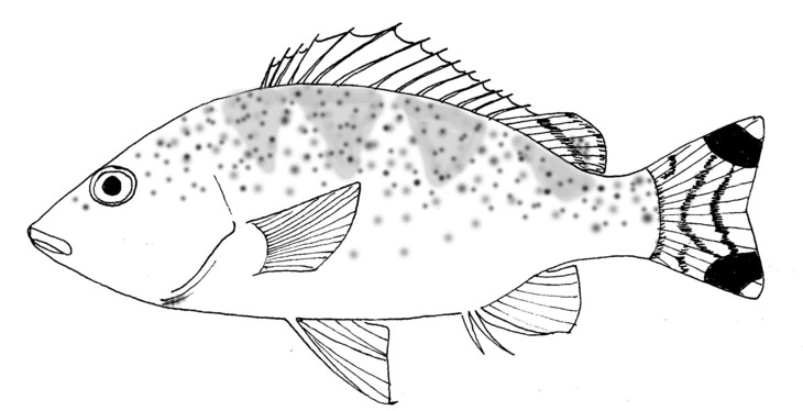 The Yellowtail trumpeter, Amniataba caudavittata, drawn by hand based on Carpenter et al 2001 and Fishbase photo by J.E. Randall